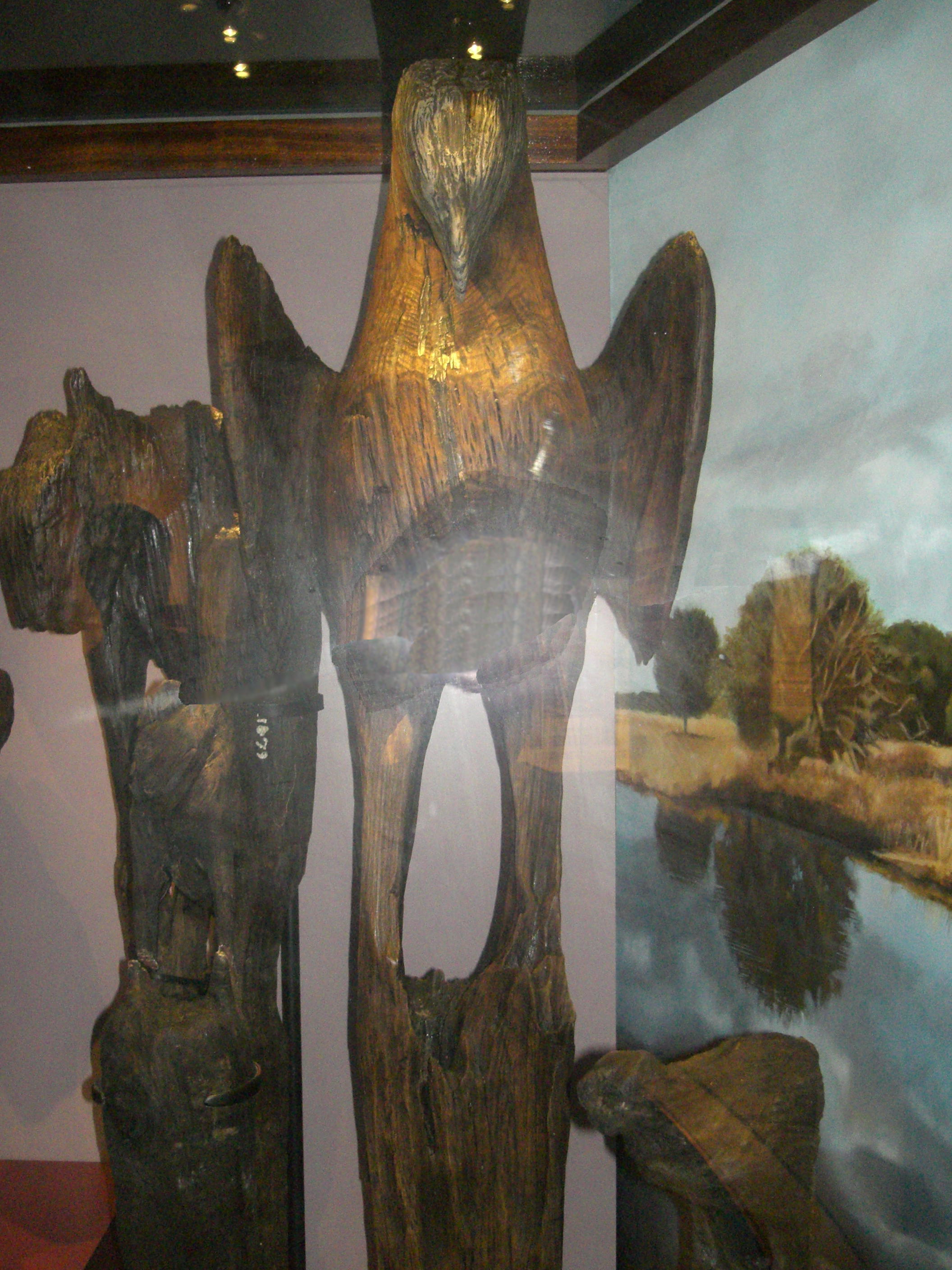 Photograph of carved wooden eagle found at Fort Center archaeological site and displayed at Florida Museum of Natural History. The carving is believed to be at least 1500 years old.